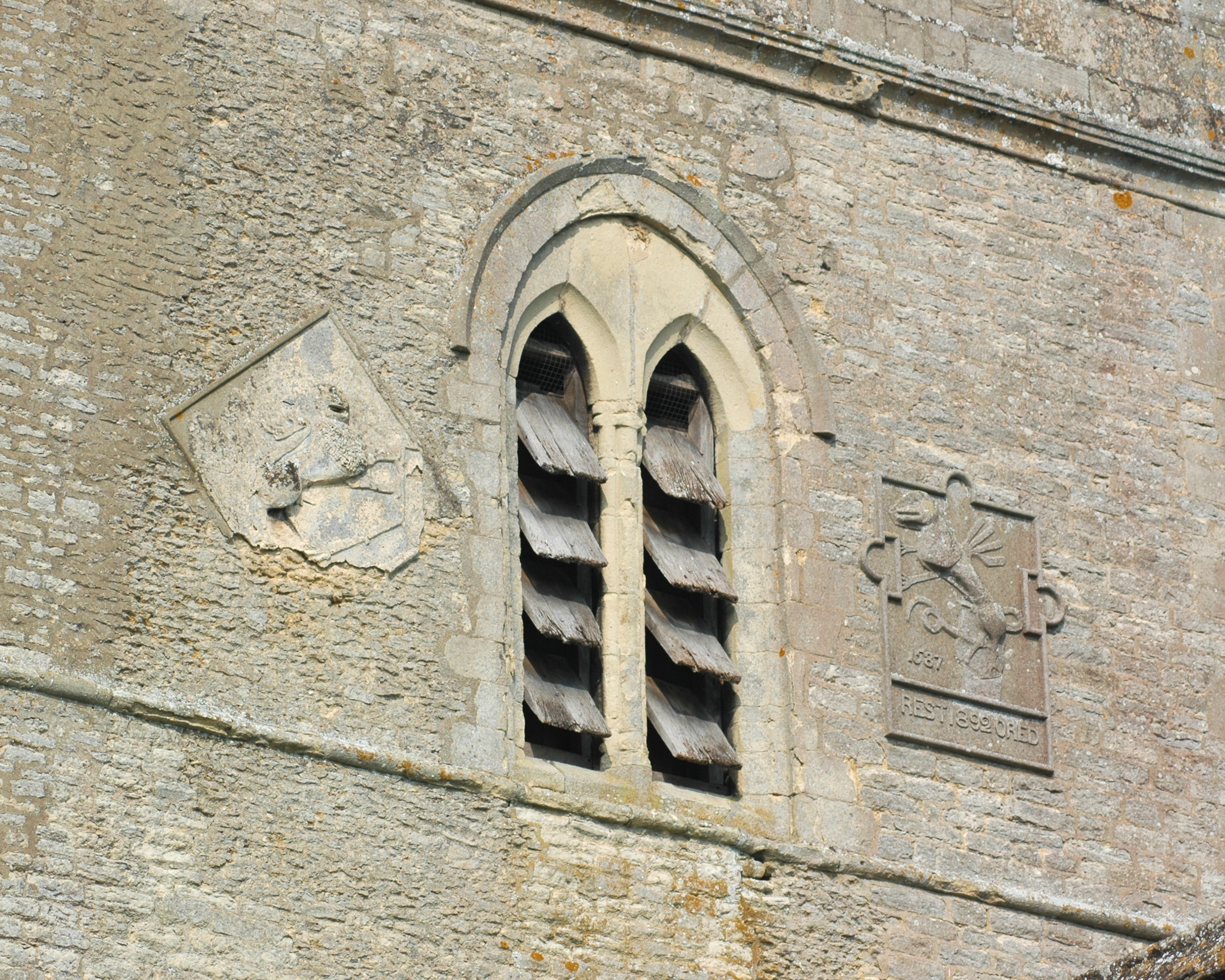 Church of England parish church of St Mary the Virgin, Ambrosden, Oxfordshire: bell-opening, parget of a lion and restored parget of a griffin on the east side of the tower